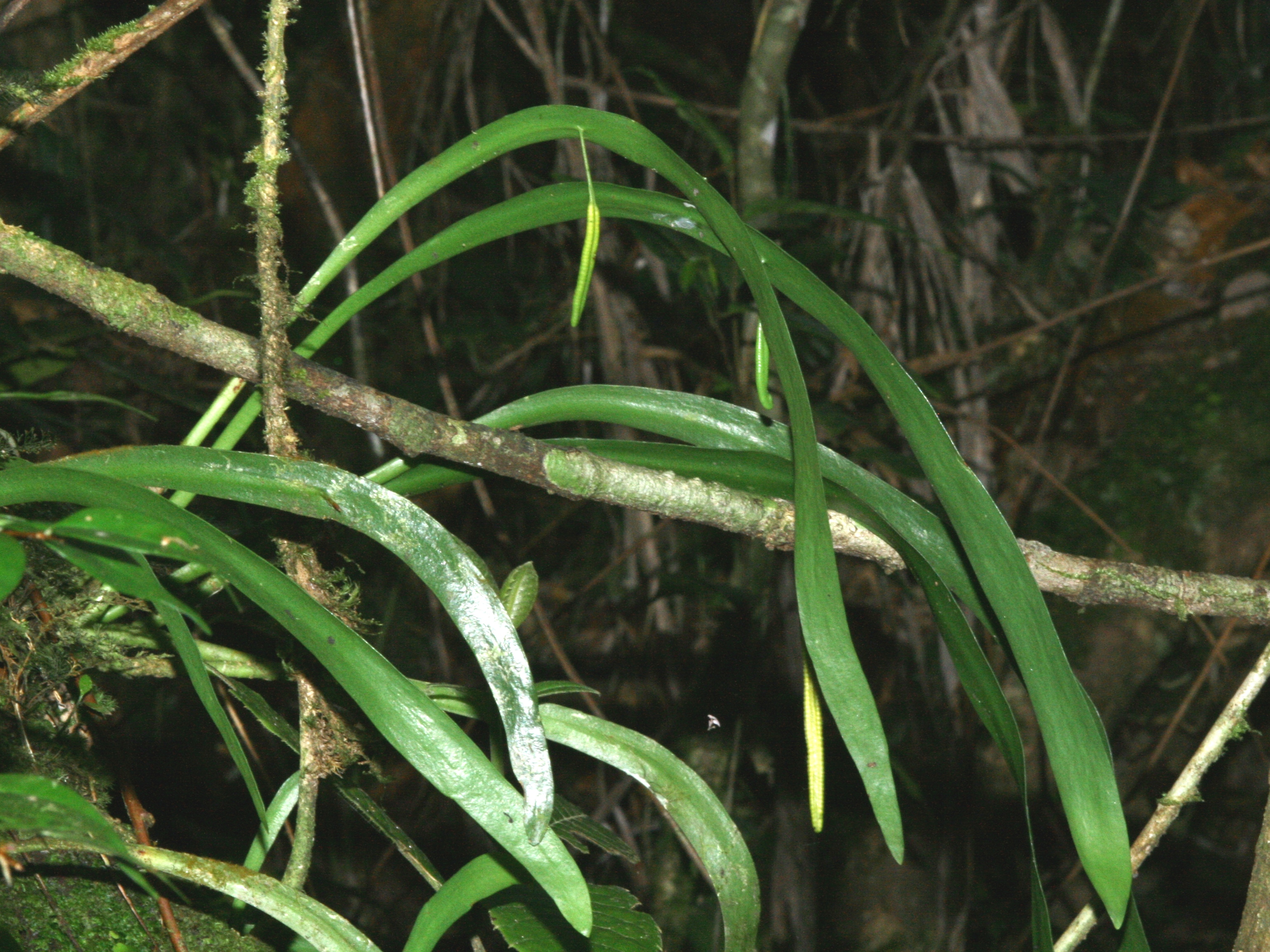 Ophioglossum pendulum, Gunung Kemiri, Sumatra